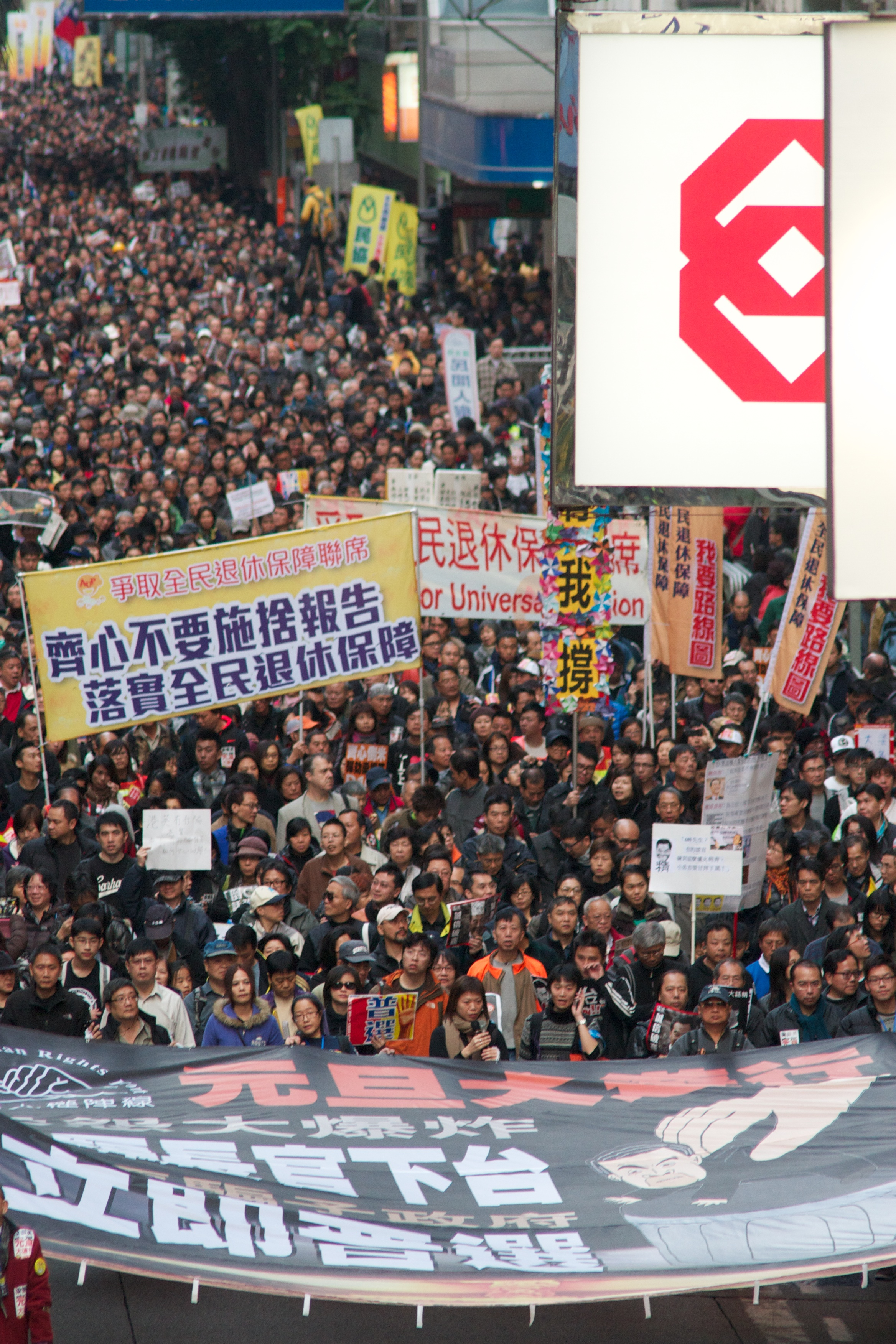 Hong Kong people took the street on 1 January 2013 to demand Chief Executive CY Leung to step down. 中文（香港）: 香港市民於2013年元旦上街要求梁振英落台